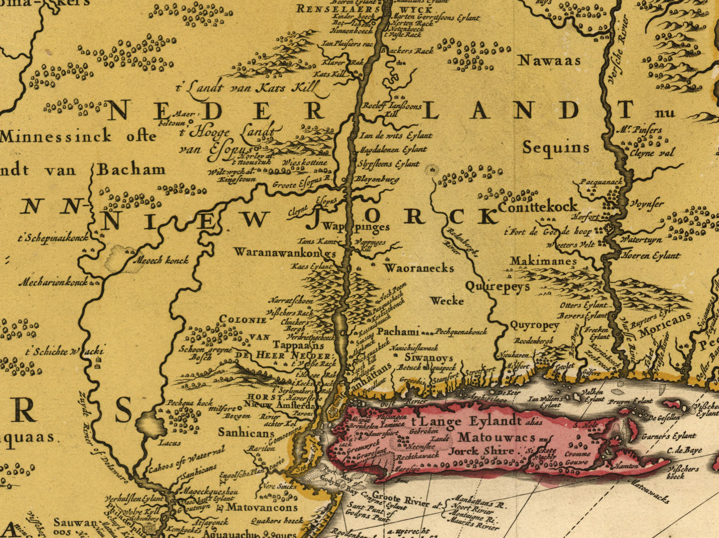 Image is an excerpt from the original map by Nicolaes Visscher in the public domain and previously placed at Wikimedia Commons as File:Map-Novi Belgii Novæque Angliæ (Amsterdam, 1685).jpg